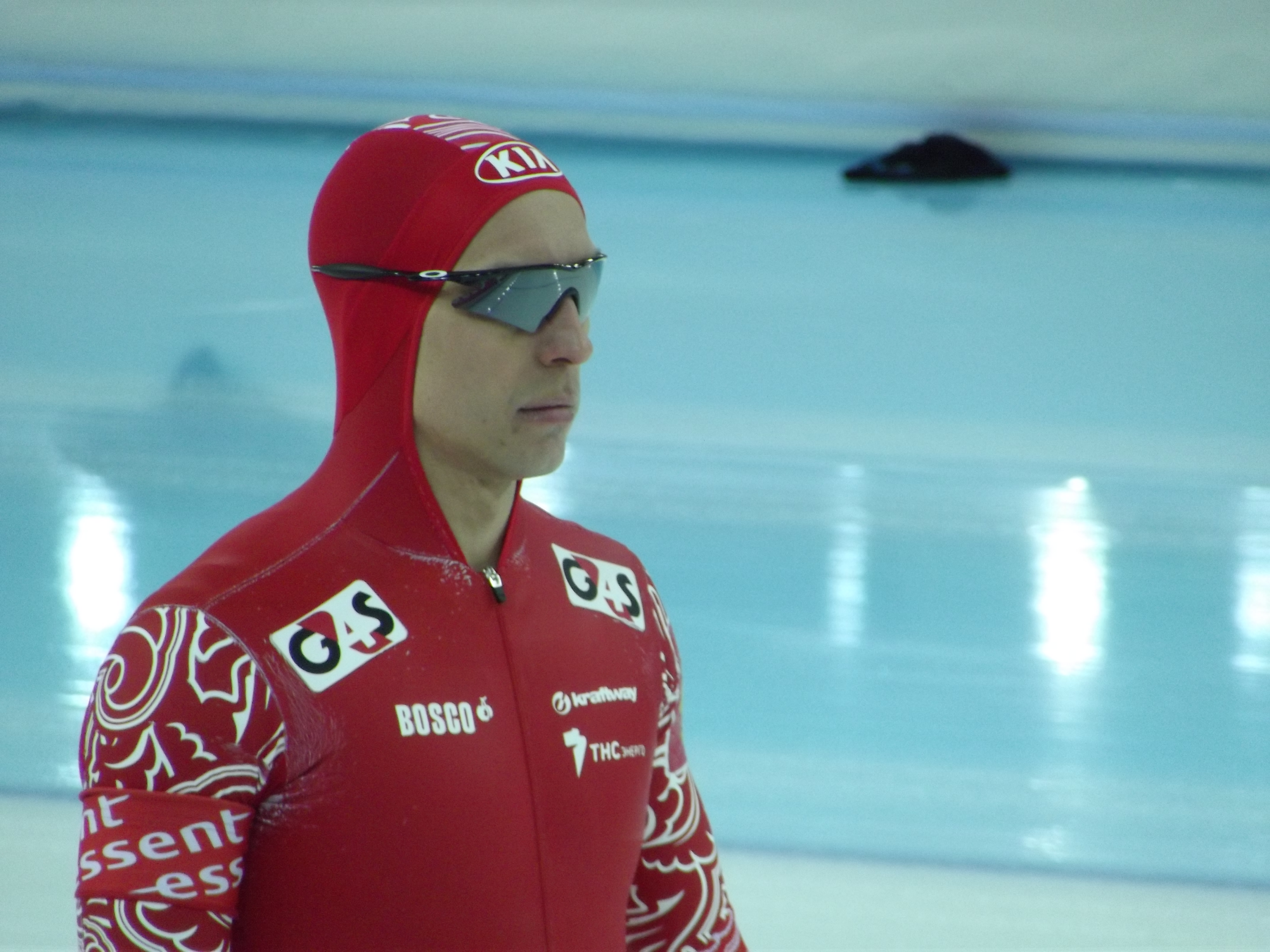 2013 World Single Distance Speed Skating Championships